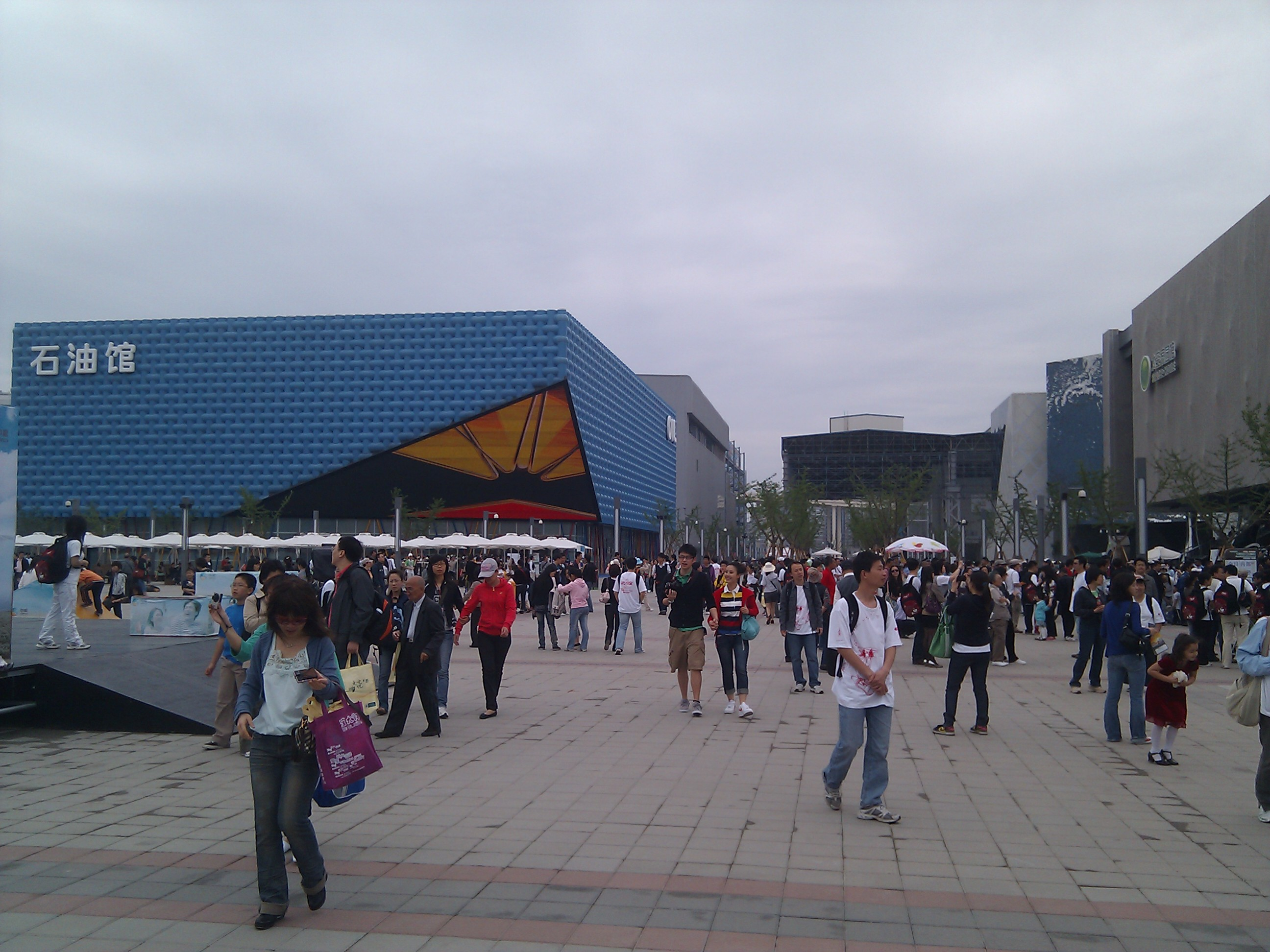 Oil Pavilion of Expo 2010